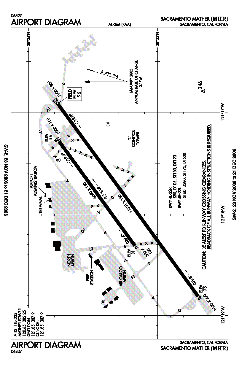 FAA airport diagram for MHR (Sacramento Mather Airport) in California, United States.